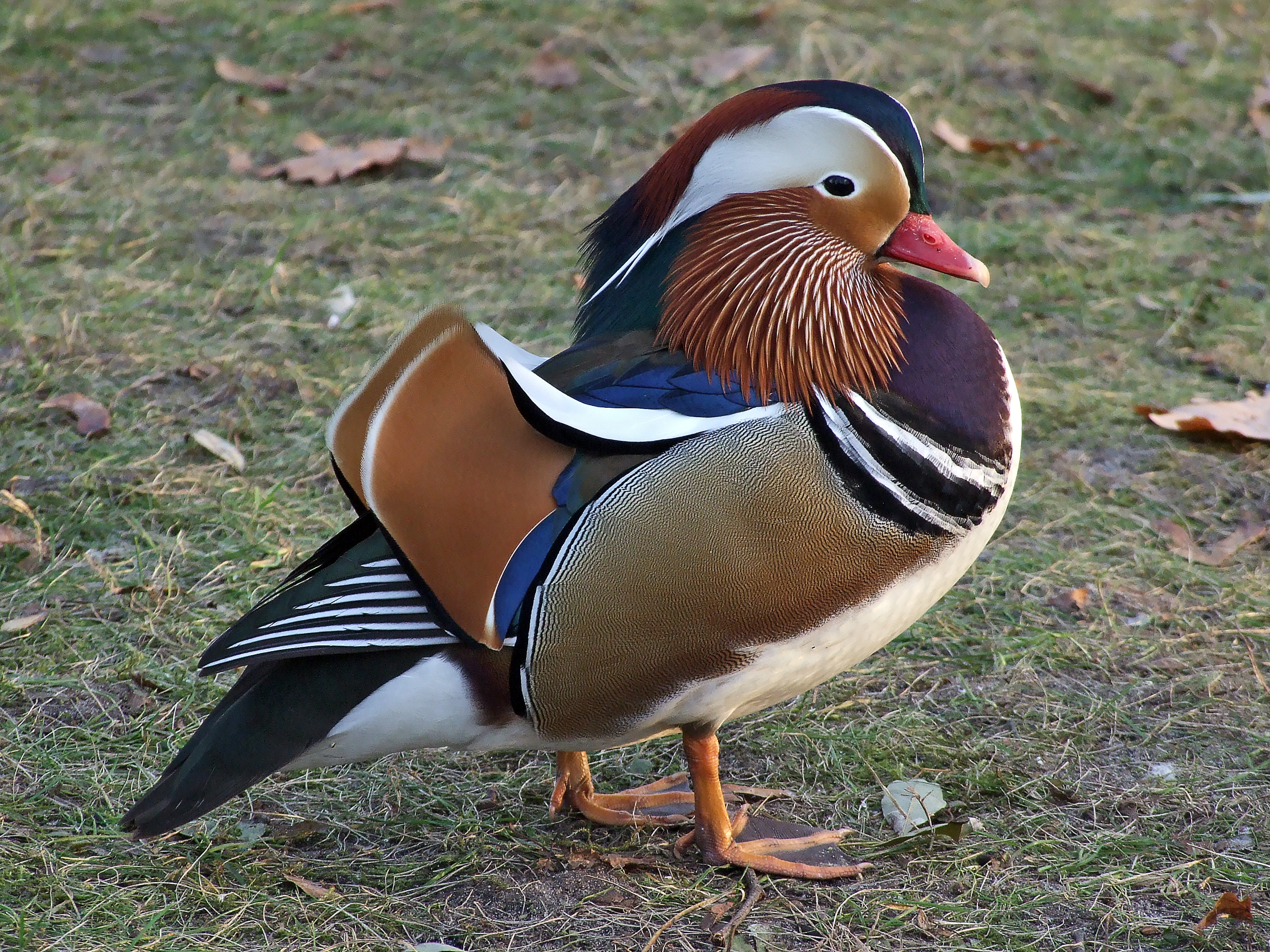 Mandarin Duck in Warsaw Łazienki Park.